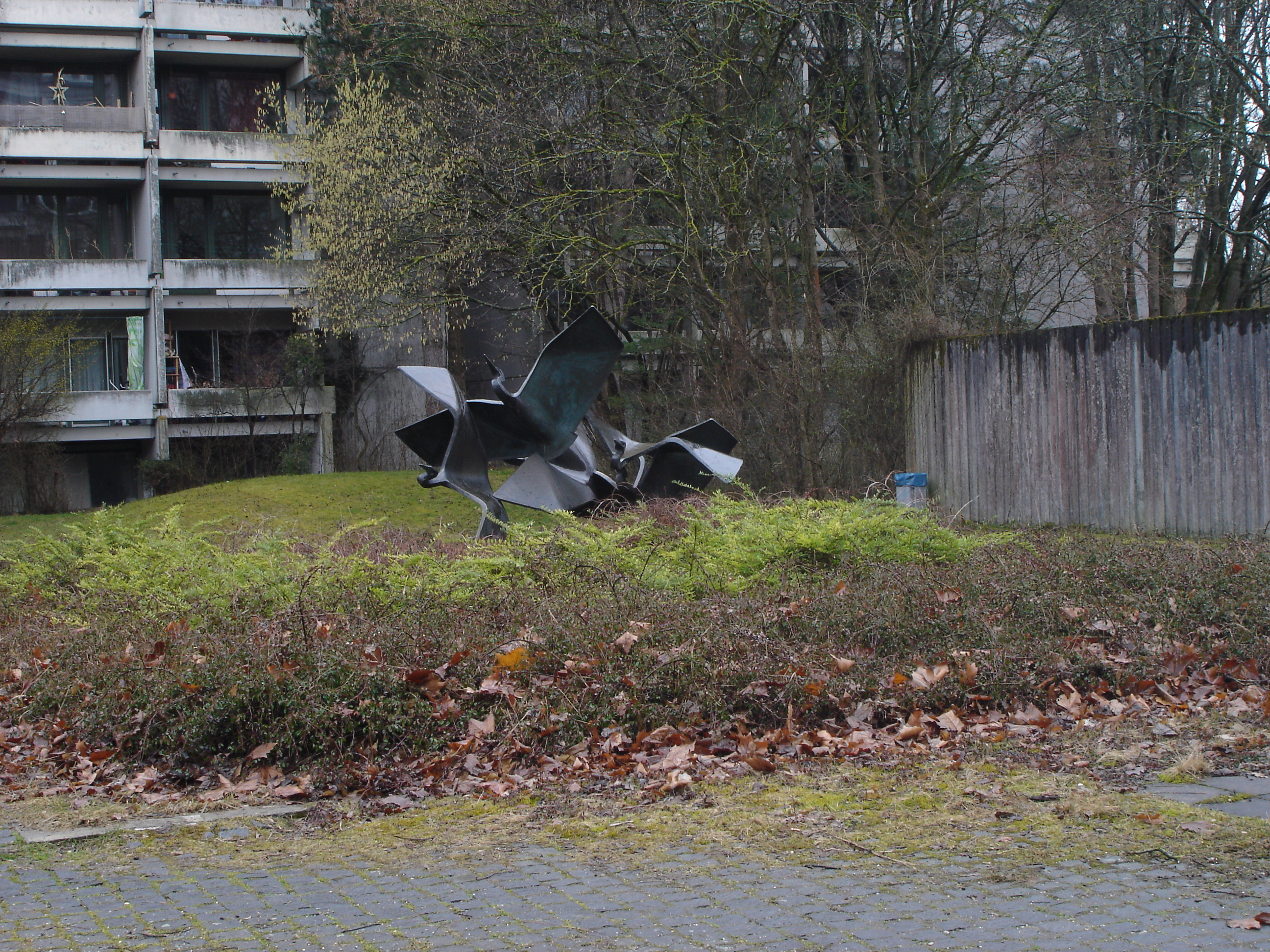 Sculpture by Rolf Nida-Rümelin